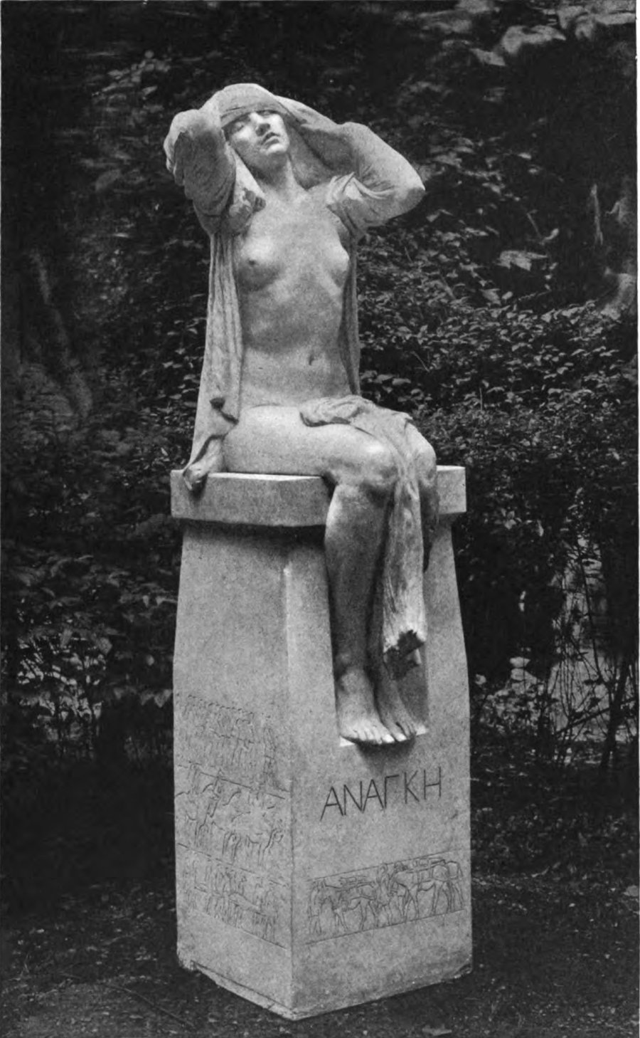 Destiny, statue